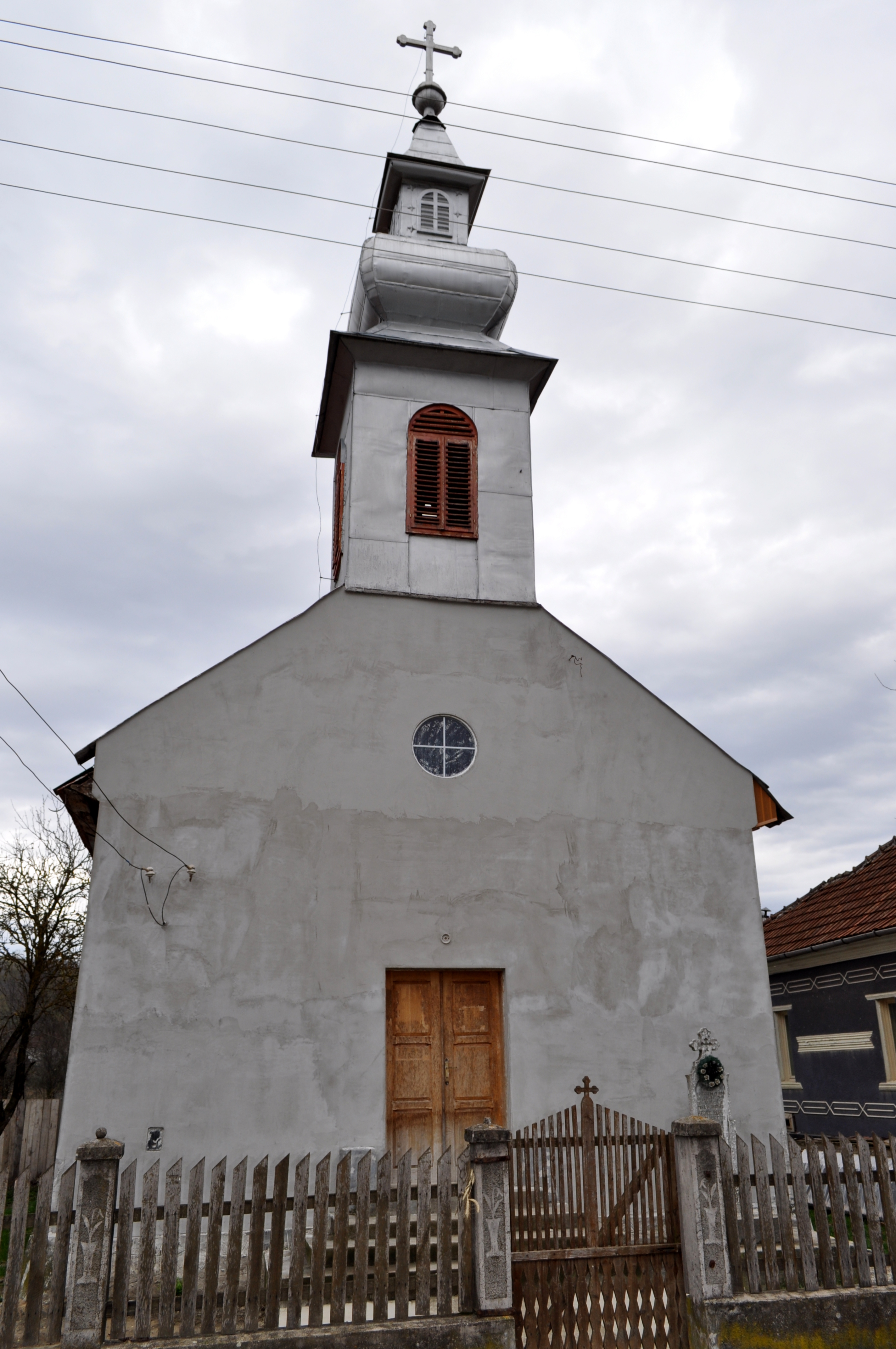 Wooden church in Baia, Arad county, Romania